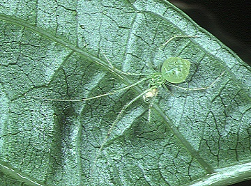 female Chrysso viridiventris from Okinawa.